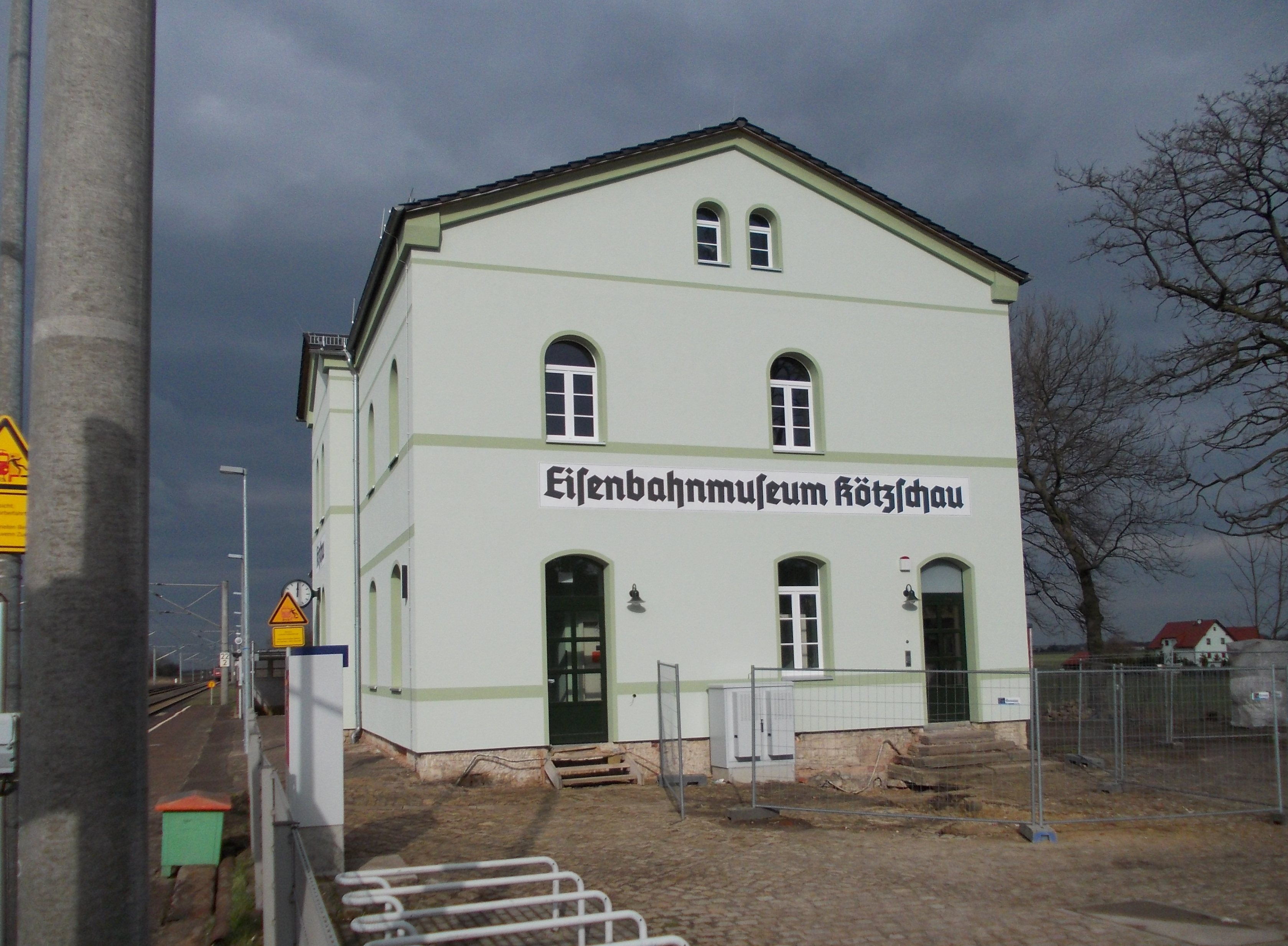 Station building of Kötzschau train station (Leuna, district of Saalekreis, Saxony-Anhalt), now railway museum